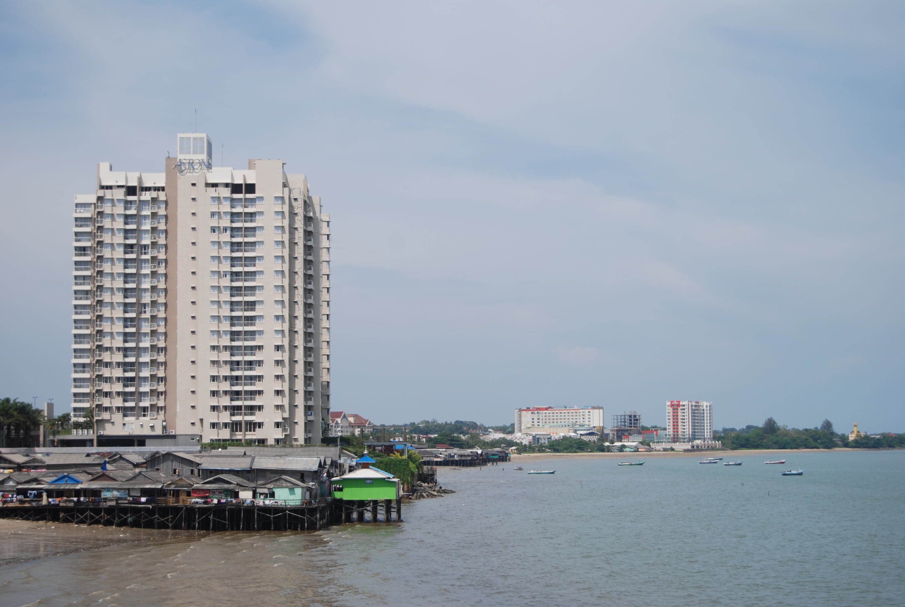 Seafront of Balikpapan.